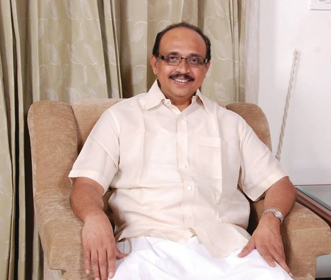 photo of padmasree kurian john melamparambil